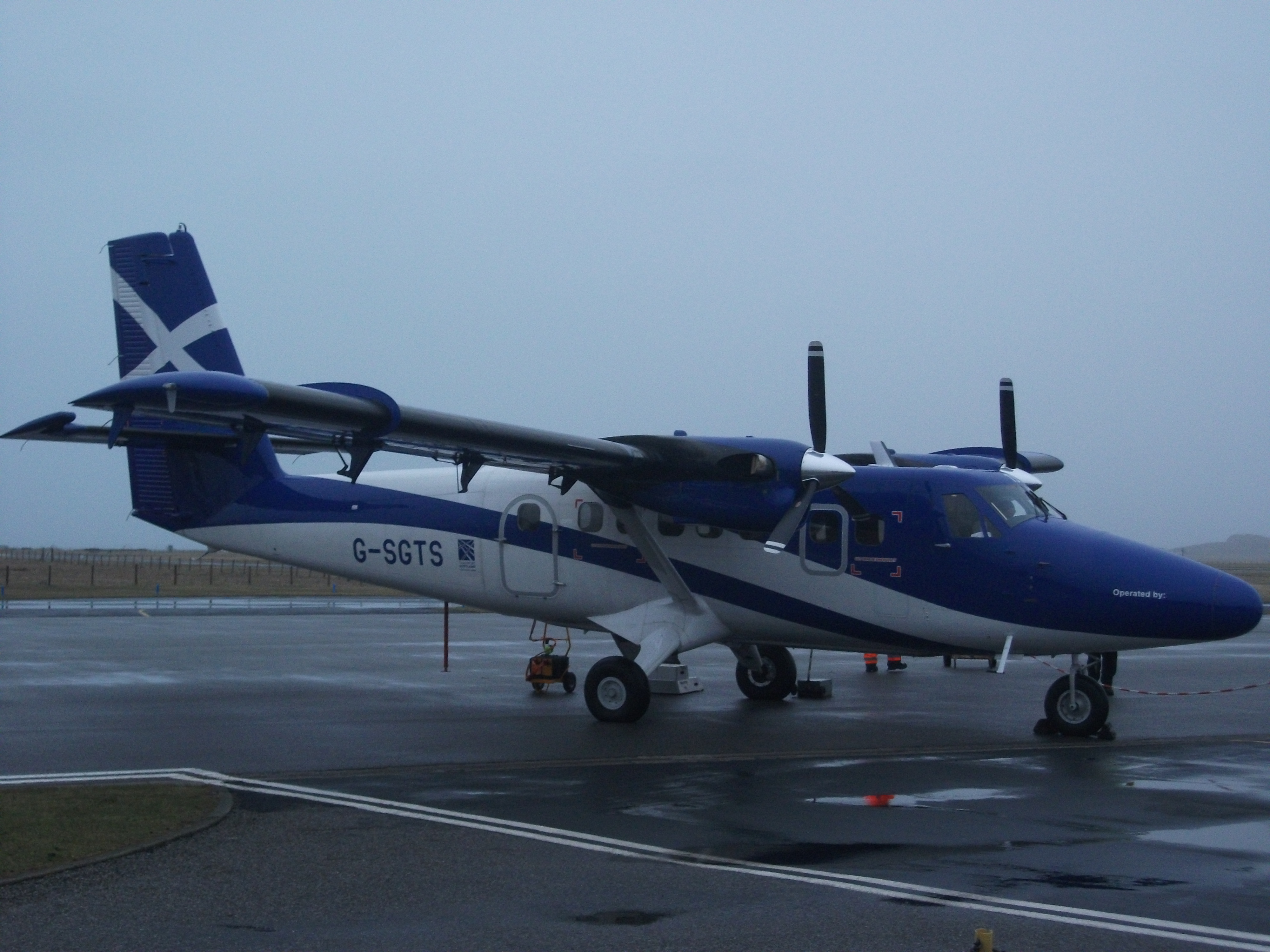 Loganair Viking Air DHC-6-400 Twin Otter (G-SGTS) at Tiree Airport. The aircraft is operated by Loganair on behalf of Highlands and Islands Airports Limited.